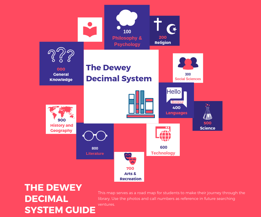 Here is a chart that can be used to help students understand the Dewey Decimal System categories.